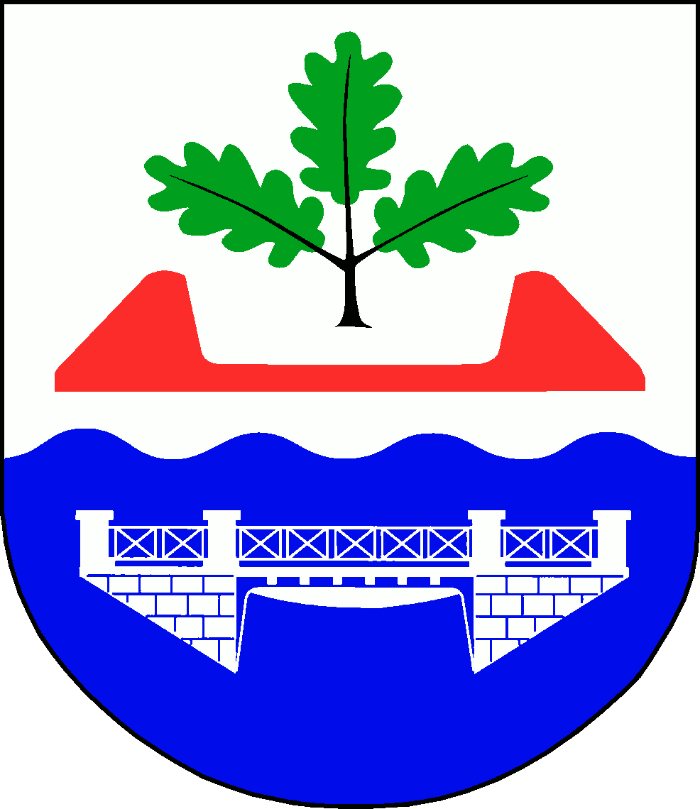 Coat of arms of the municipality Kaaks in Schleswig-Holstein, Germany.